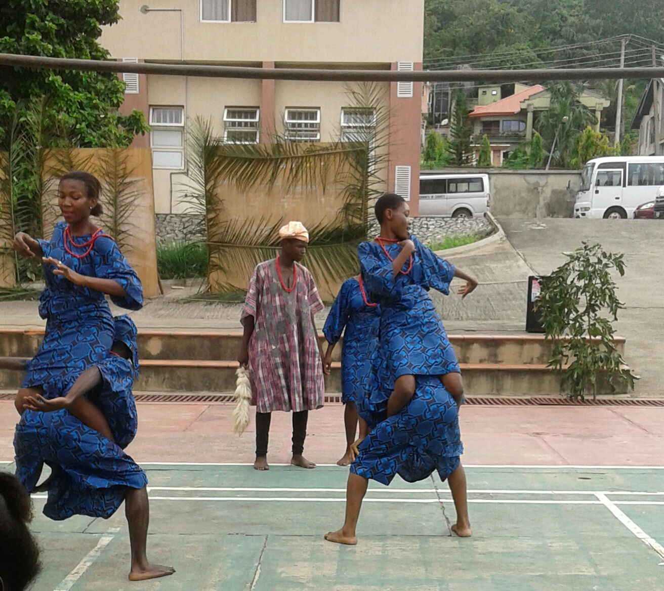 This picture was taken at the Guanella Youth cultural day held at servant of charity(the house of providence) Yemetu Alaadorin Ibadan on the 25th of June 2017